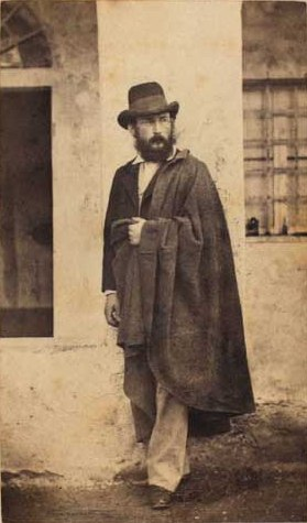 Johan Jochum Reinau (1836-1867), Danish decorative painter